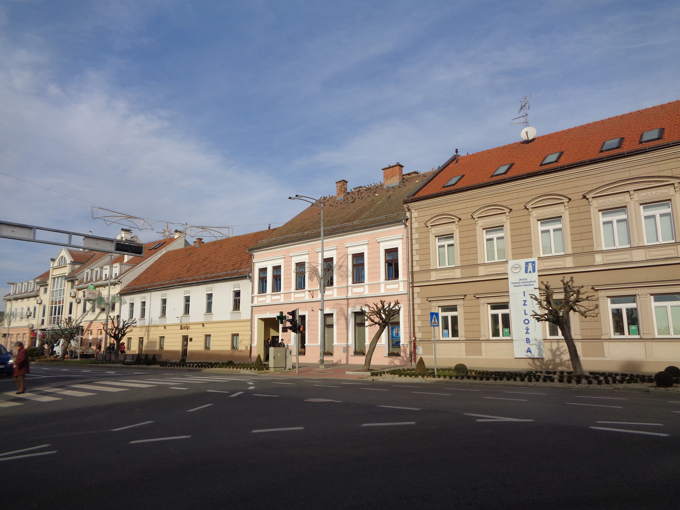 The Town of Prelog, Medjimurje County, Croatia - Buildings on the north side of Main Street (Glavna ulica)